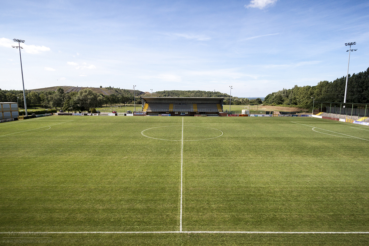 The Robert Urbain Stadium, Boussu, Belgium